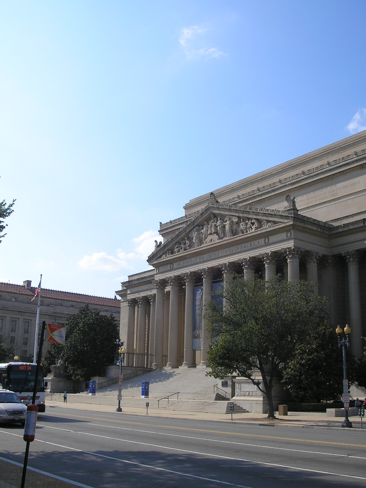 The National Archives Building in Washington, D.C..